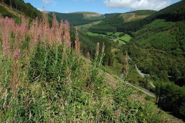 Afon Angell valley, Dyfi Forest An area of clear fell in the Dyfi Forest above the valley through which the Afon Angell flows.